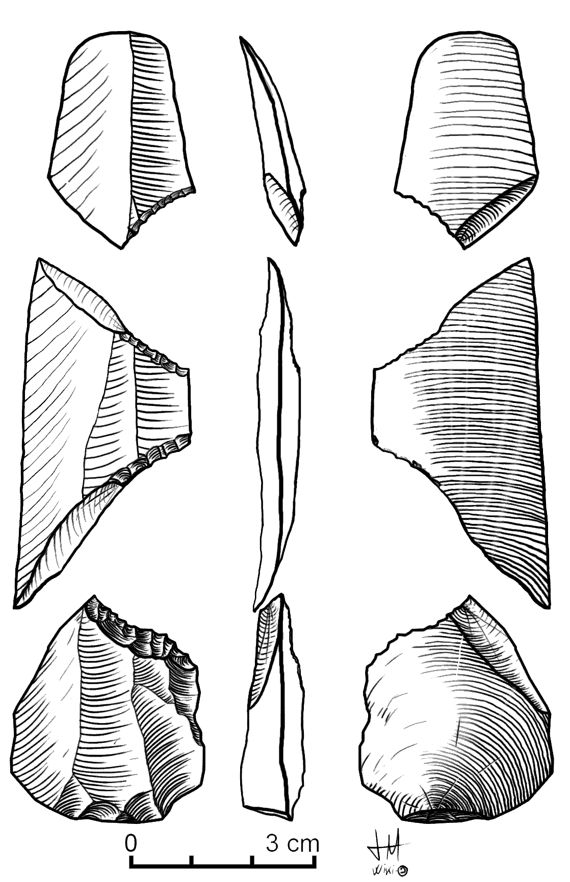 Microburin blow: fifth step: new breaking of the blade ceating a distal microburil and a mesial double trihedrhal pointed anvil